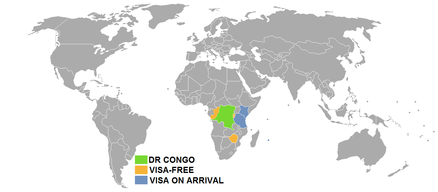 Visa policy of the Democratic Republic of the Congo Democratic Republic of the Congo Visa-free Visa on arrival